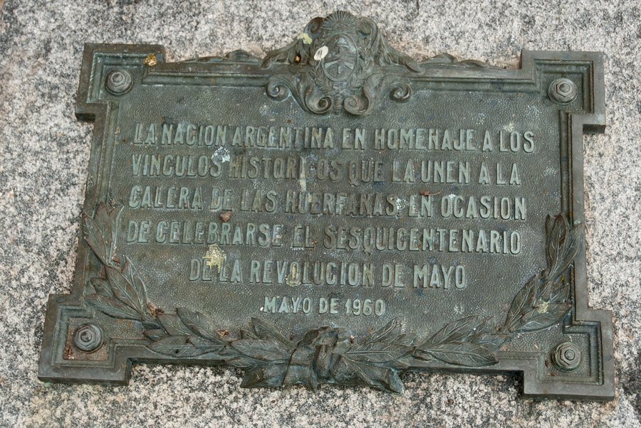 Calera de las Huérfanas. Colonia. Uruguay